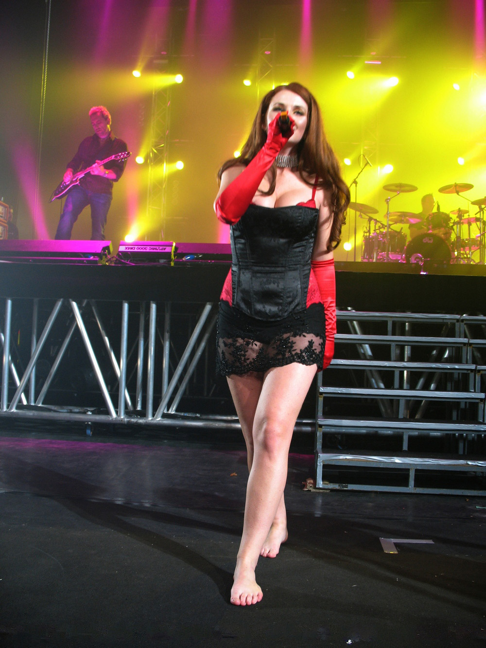 t.A.T.u. Bacardi B-LIVE in Moscow (Lena Katina)